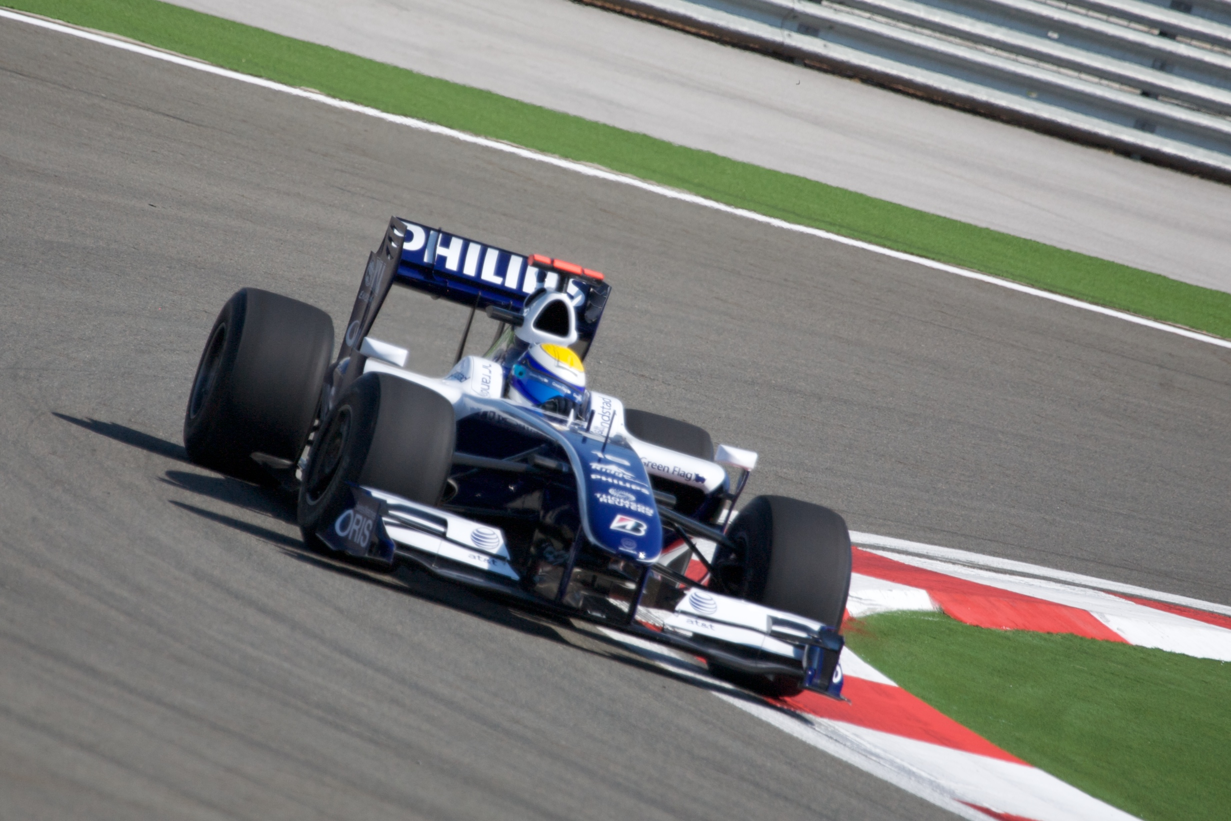 Nico Rosberg driving for WilliamsF1 at the 2009 Turkish Grand Prix.